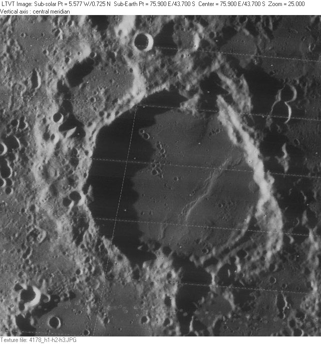 Crater Oken. Detail from Lunar Orbiter IV-178H. High resolution scans from the USGS Lunar Orbiter Digitization Project remapped to a north-up aerial view by LTVT.